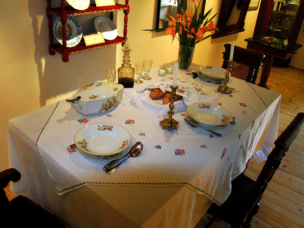 sanok